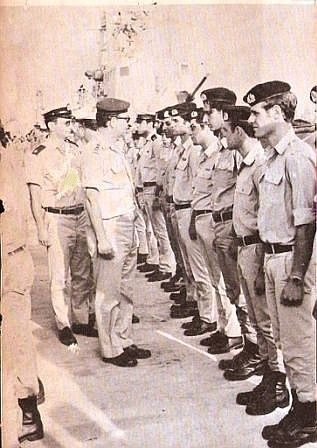 General Muta Gur inspecting the crews of INS Tarshish before sailing